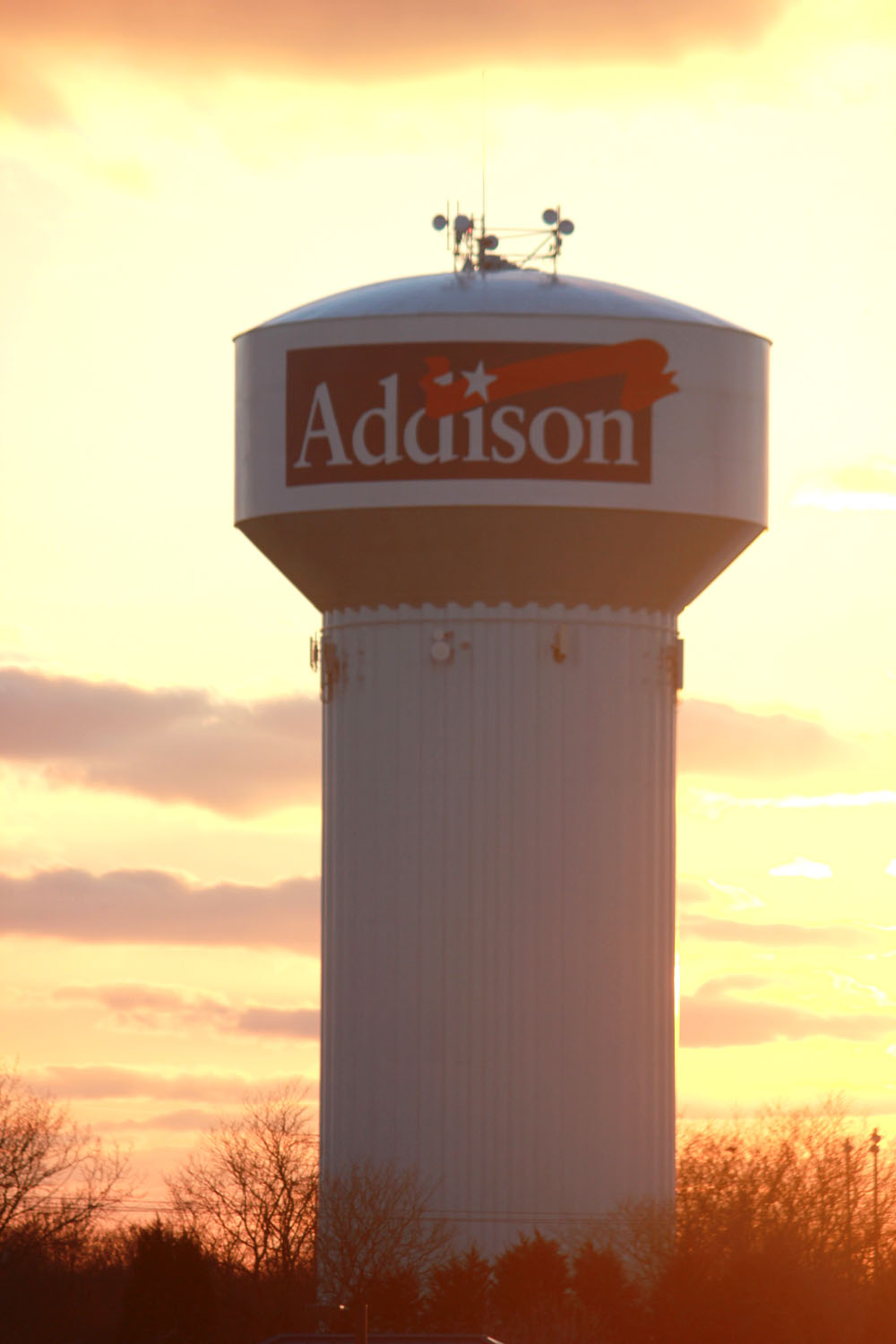 The water tower of Addison, Illinois